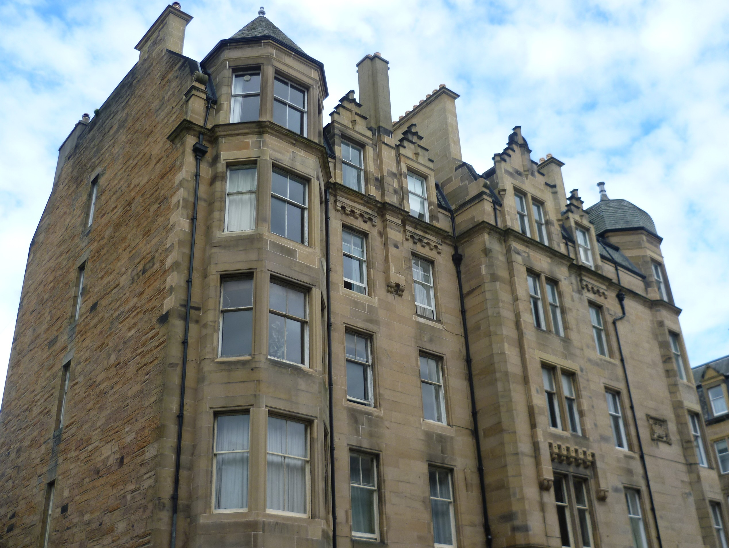 Victorian tenement at Boroughmuirhead, Edinburgh, built in 1893